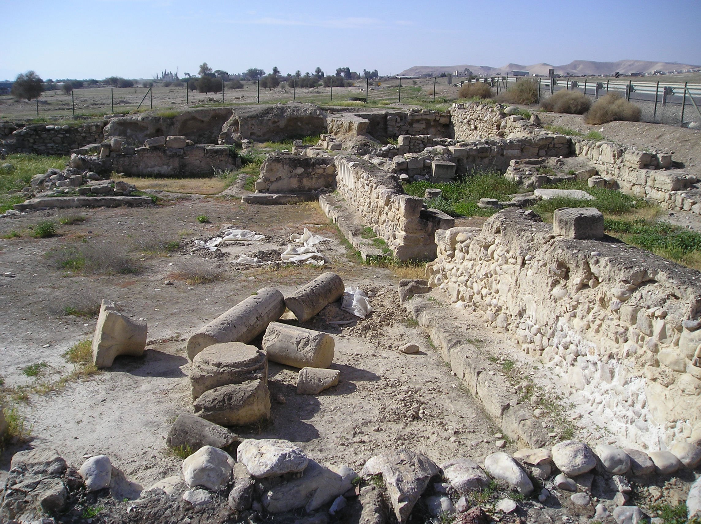 Ruins of Byzantinian church in Archelais, Israel